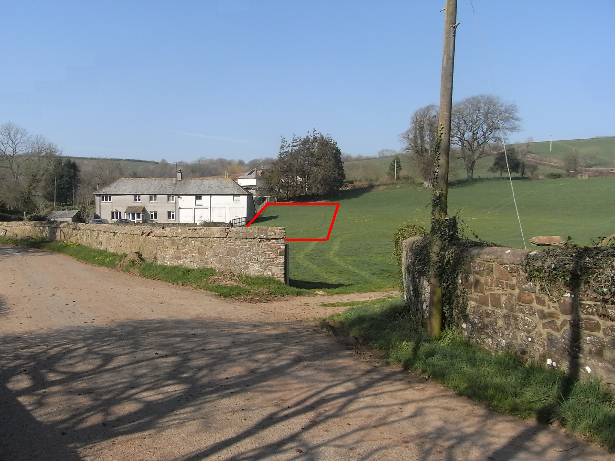 Footprint marked in red of Yeo Vale House, demolished in 1973. The remaining building is the former barton or farmhouse of the Westaway family, now called Yeo Vale cottages.